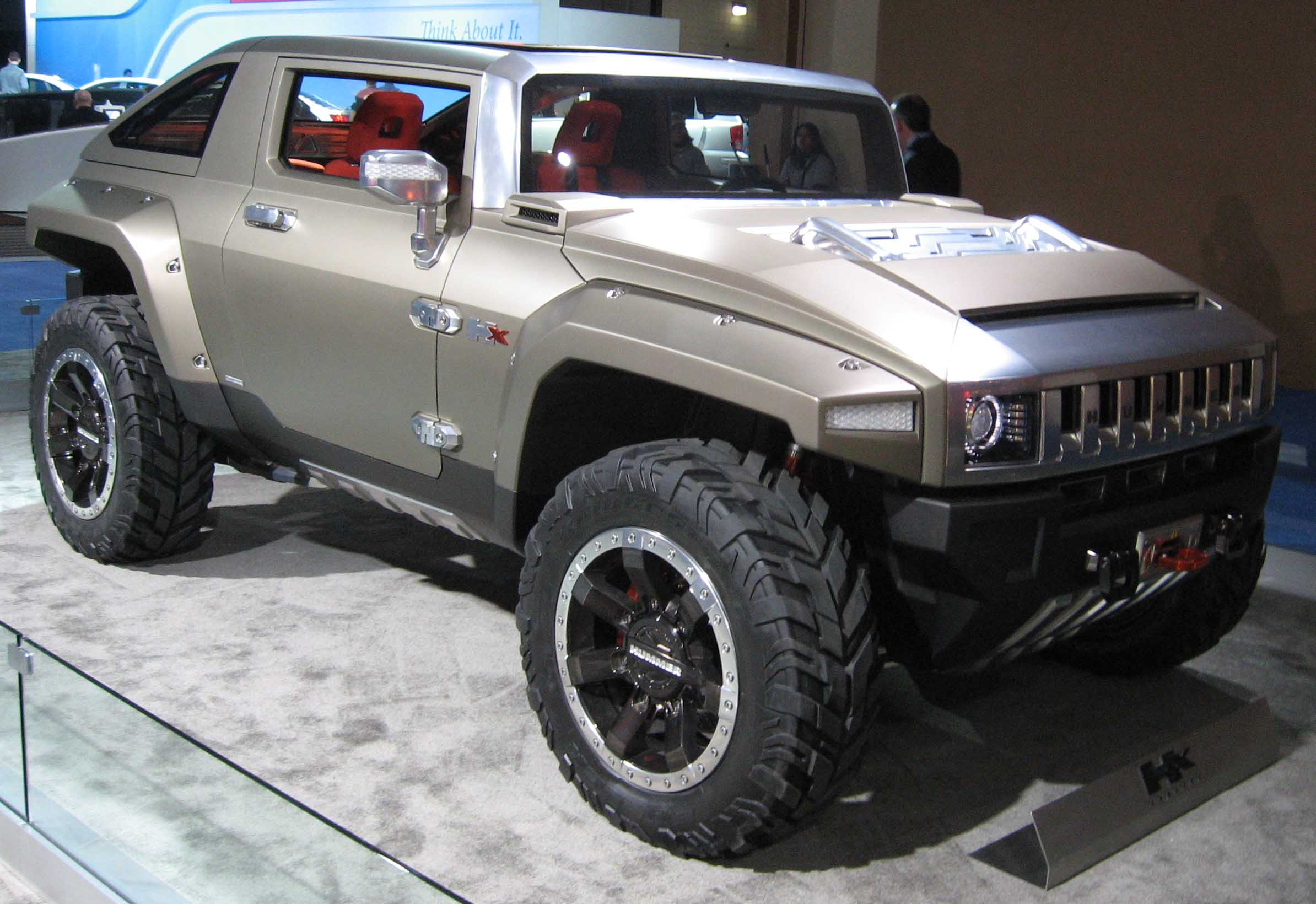 Hummer HX concept photographed at the 2008 New York Auto Show.